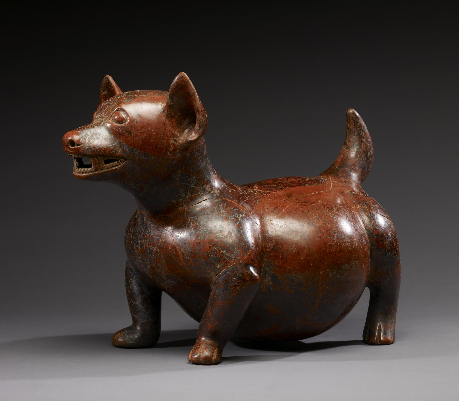 Among the Mexica (Aztecs) of highland Mexico, dogs were associated with the deity Xolotl, the god of death. This deity and a dog were believed to lead the soul on its journey to the underworld. The Mexica also associated Xolotl with the planet Venus as the evening star (portrayed with the head of a canine) and the twin brother of the deity Quetzalcóatl, who personified Venus as the morning star. The dog's special relationship with humans is highlighted by a number of Colima dog effigies wearing humanoid masks. This curious effigy type has been interpreted as a shamanic transformation image or as a reference to the modern Huichol myth of the origin of the first wife, who was transformed from a dog into a human. However, recent scholarship suggests a new explanation of these sculptures as the depiction of the animal's tonalli, its inner essence, which is made manifest by being given human form via the mask. The use of the human face to make reference to an object's or animal's inner spirit is found in the artworks of many ancient cultures of the Americas, from the Inuit of Alaska and northern Canada to peoples in Argentina and Chile. This extraordinary depiction of an attentive dog captures its spirit as companions of humans. The attentive canine's rotund body may suggest its value as food for the posthumous soul.